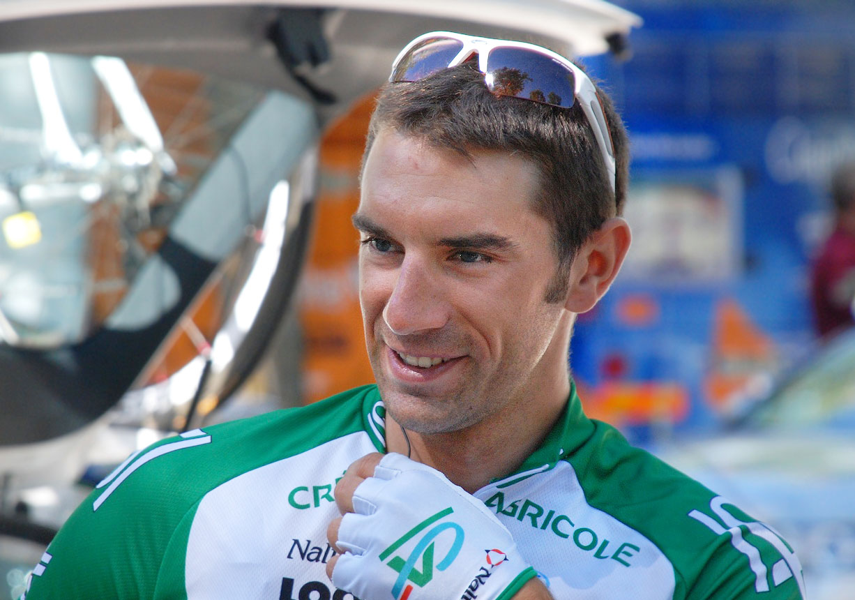 Professional cyclist William Bonnet during Tour de France 2008